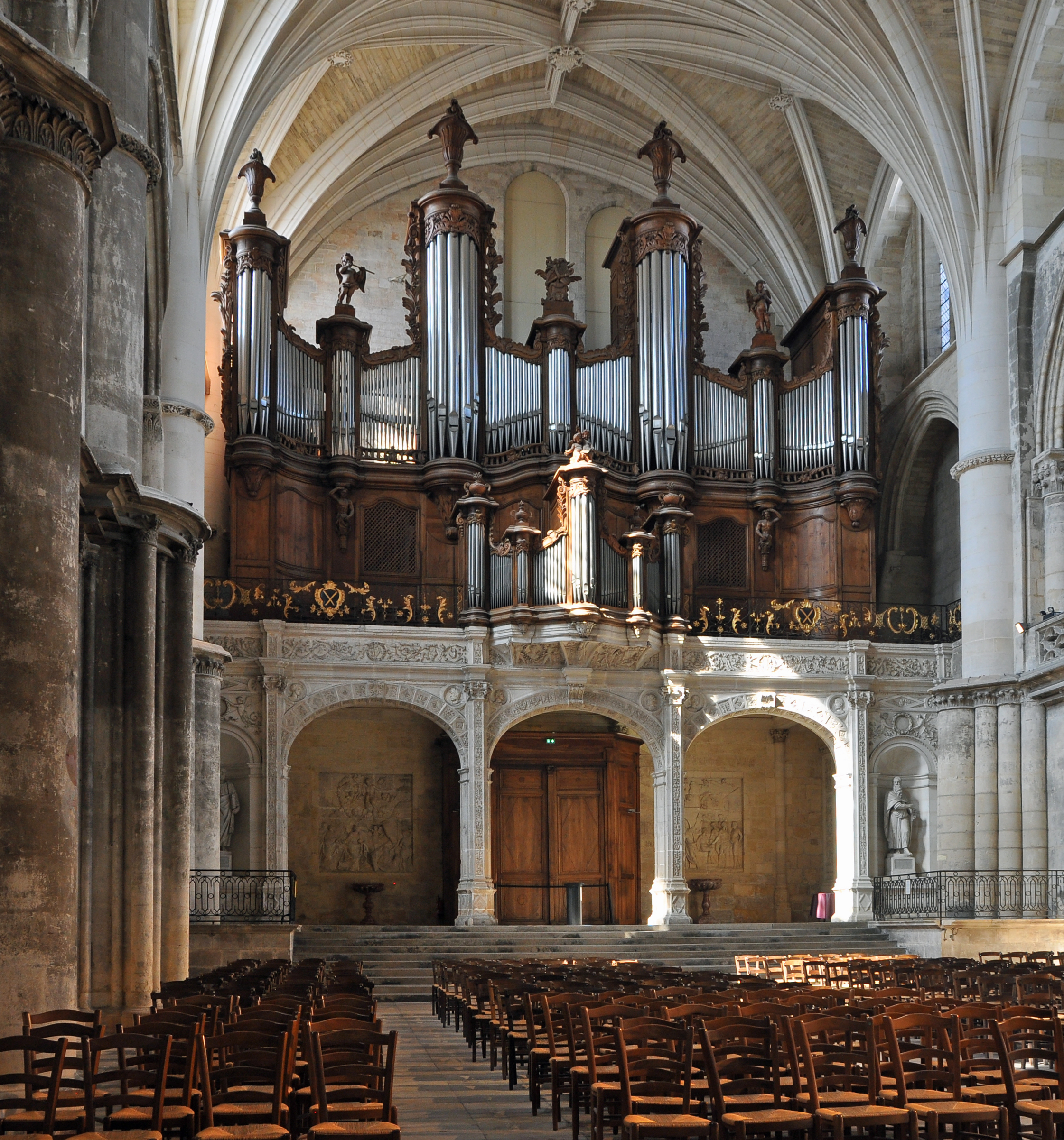 Bordeaux (France): St Andrews cathedral - the Danion-Gonzales organ